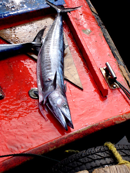 Wahoo caught by local fisherman in Bonaire, Netherlands Antilles photo: henry a-w (Henry aw 21:47, 12 July 2006 (UTC))